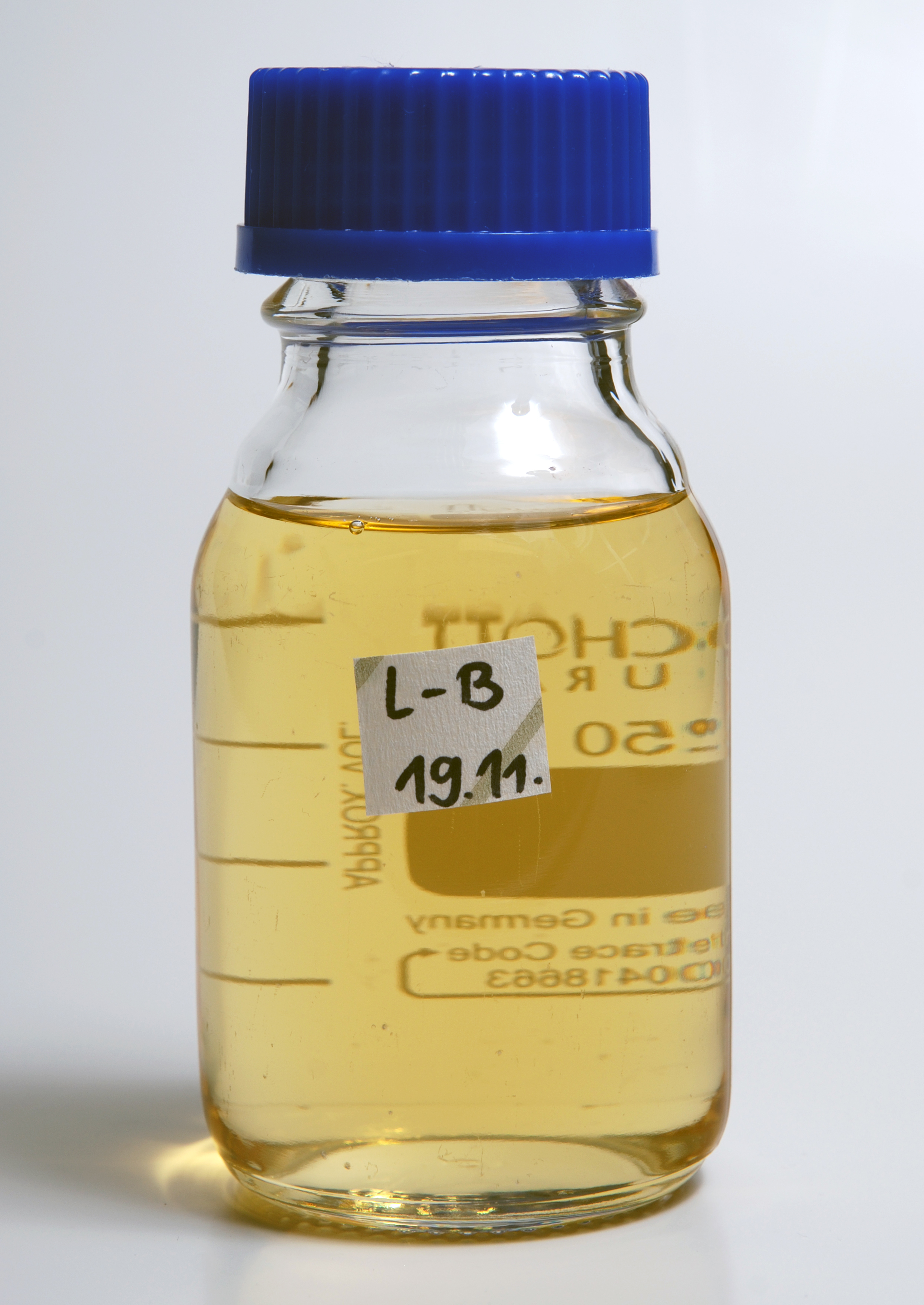 Bottle of LB medium for bacteria